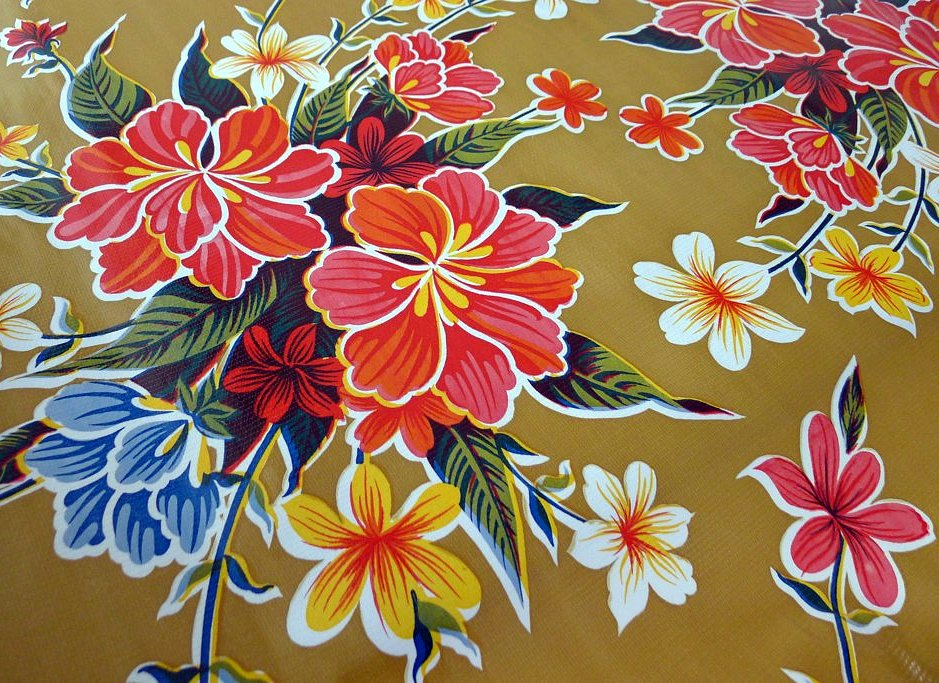 An oilcloth